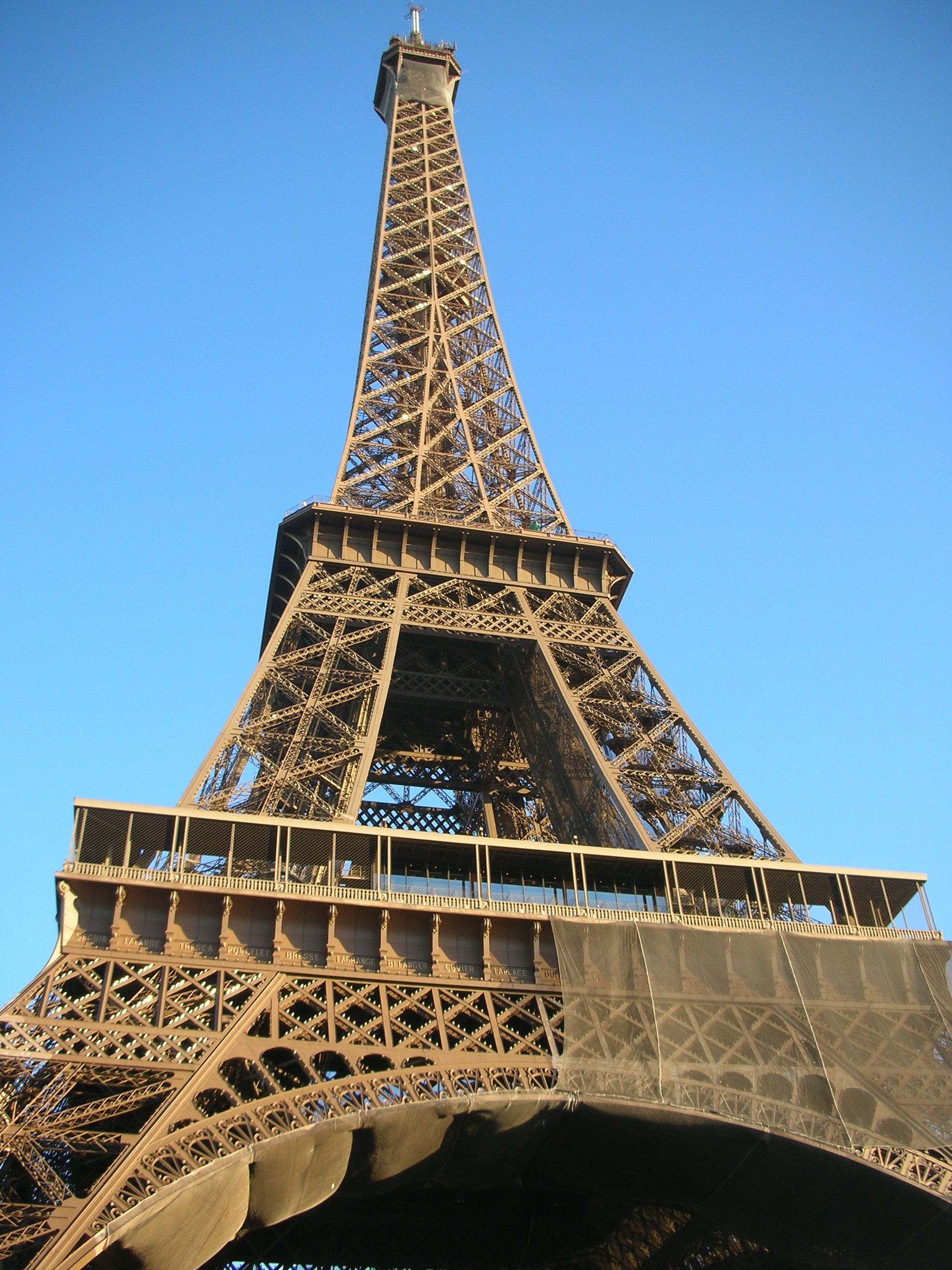 Eiffel Tower